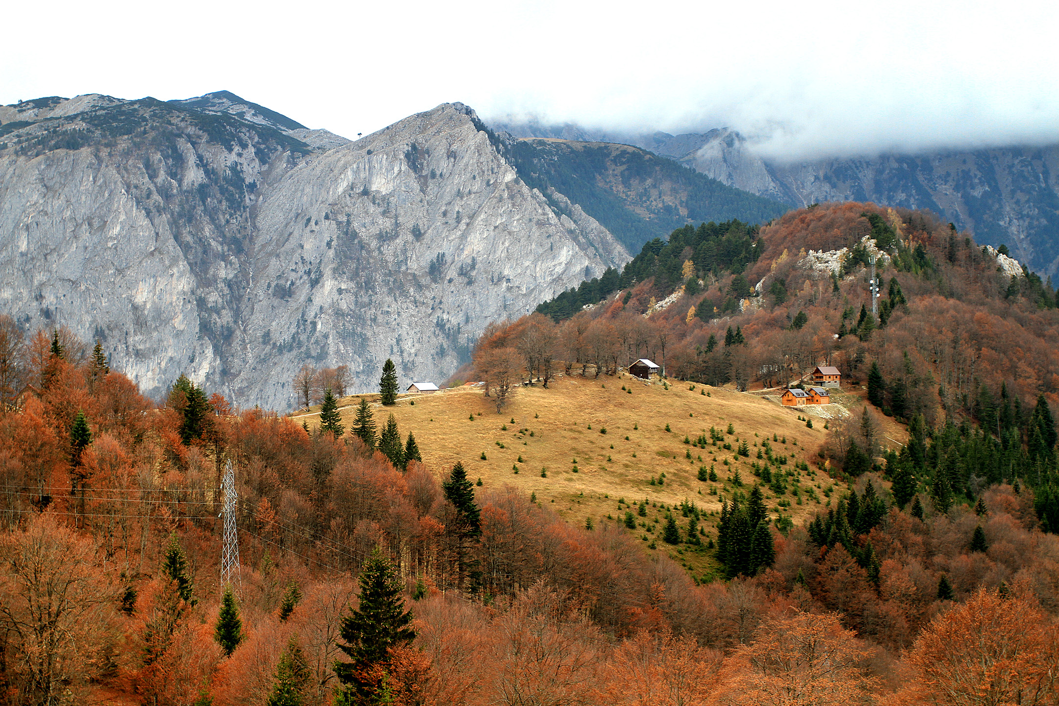 The view during the first days in November in Little Shtypeq in Rugova Gorge